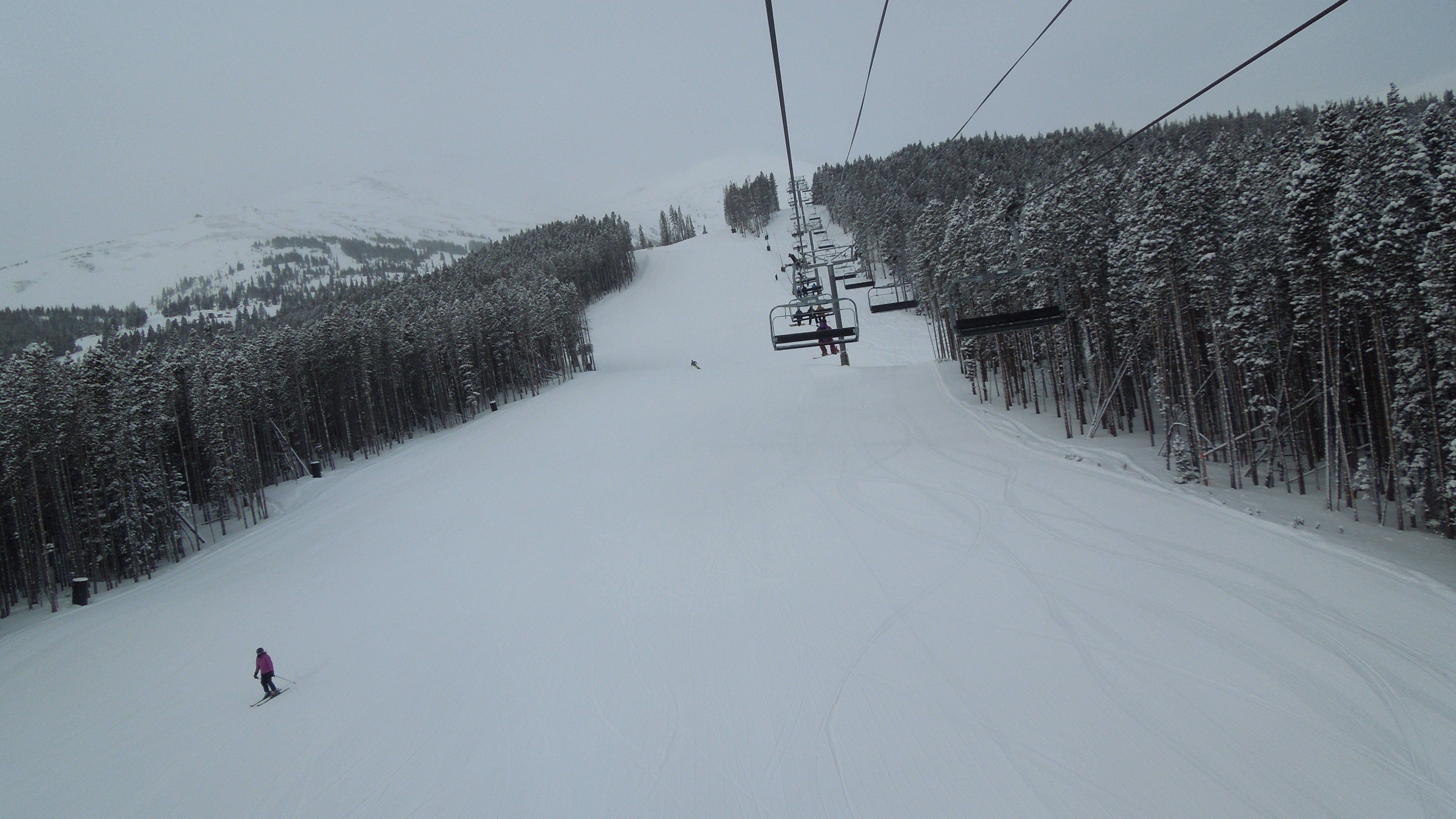 View of Pioneer, a blue run on Peak 7 at Breckenridge Ski Resort. Taken December 21, 2013. DReifGalaxyM31 (talk) 06:02, 15 January 2014 (UTC)